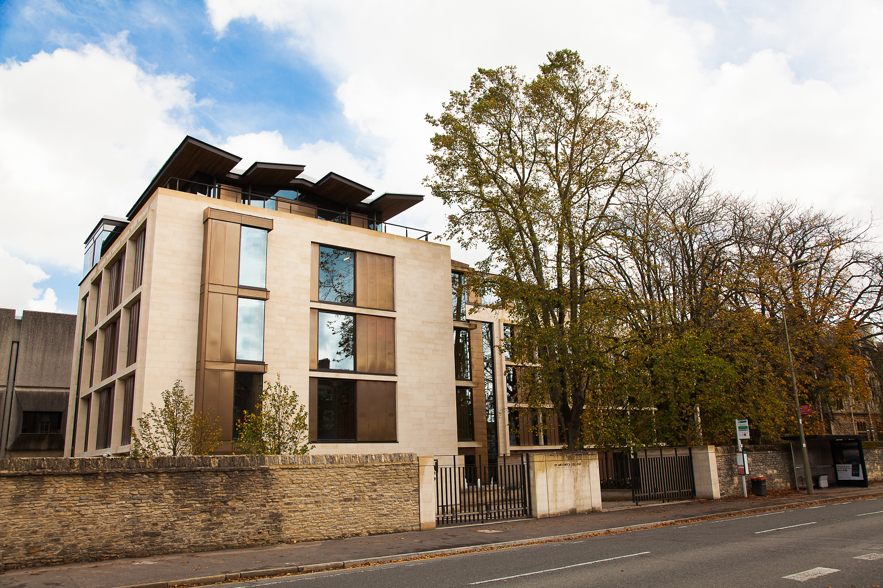 St Antony's College Gateway Building, completed in 2013